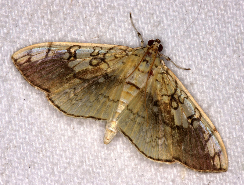 8/1/10 Boone County MO Photo and ID thanks to Lee Elliott